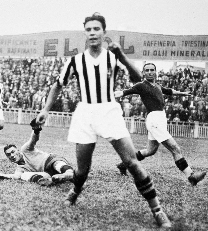 Italian footballer Felice Placido Borel (II) in action with F.B.C. Juventus in the early 1930s at the Campo Juventus in Turin.